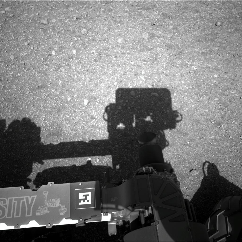 This image was taken by Navcam: Left A (NAV_LEFT_A) onboard NASA's Mars rover Curiosity on Sol 4 (2012-08-08 04:45:43 UTC) .